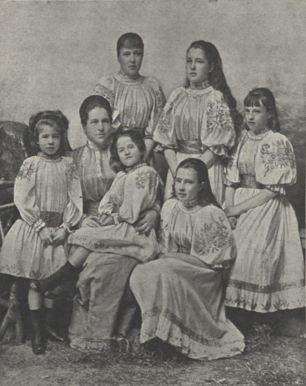 Daughters of Princess Isabelle of Croy-Dülmen and Archduke Friedrich, Duke of Teschen